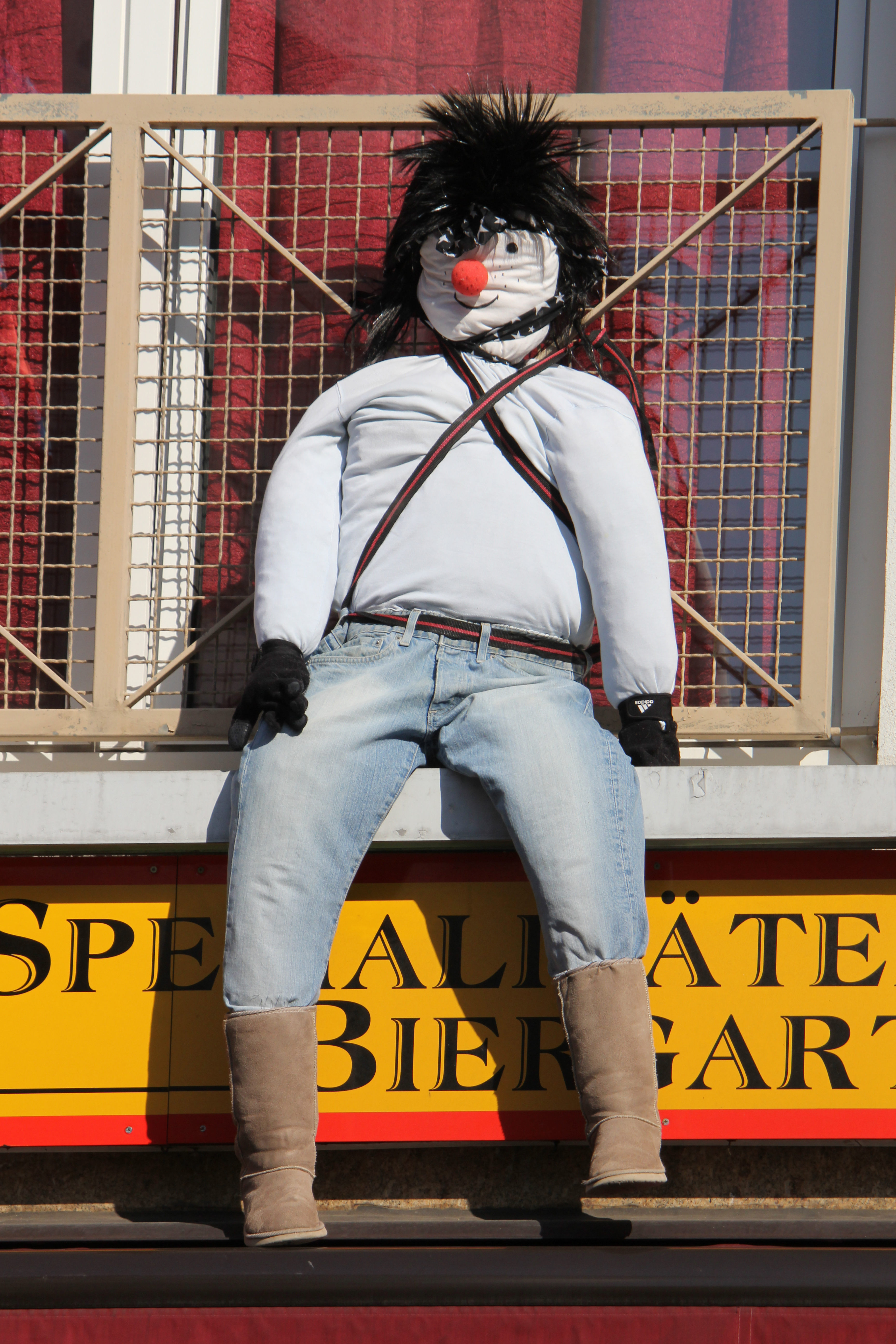 Nubbel in Cologne